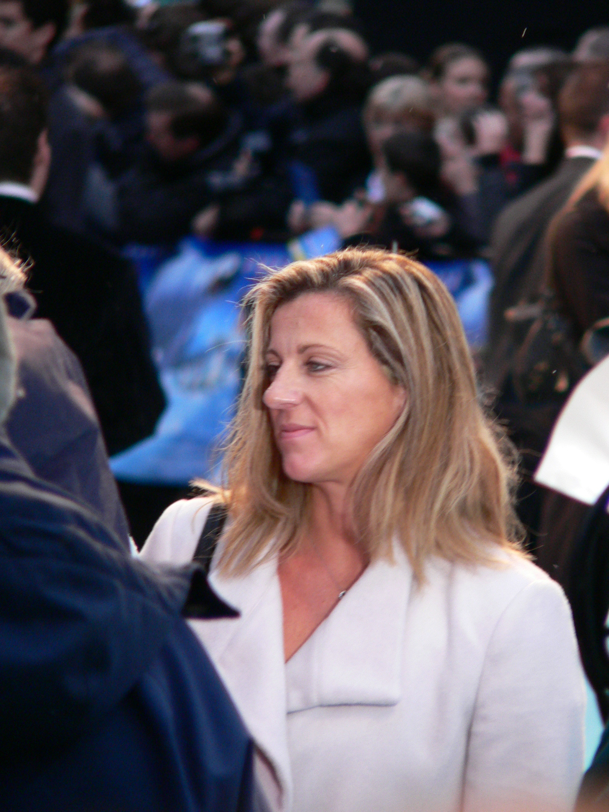 BBC sports presenter, former Olympic athlete